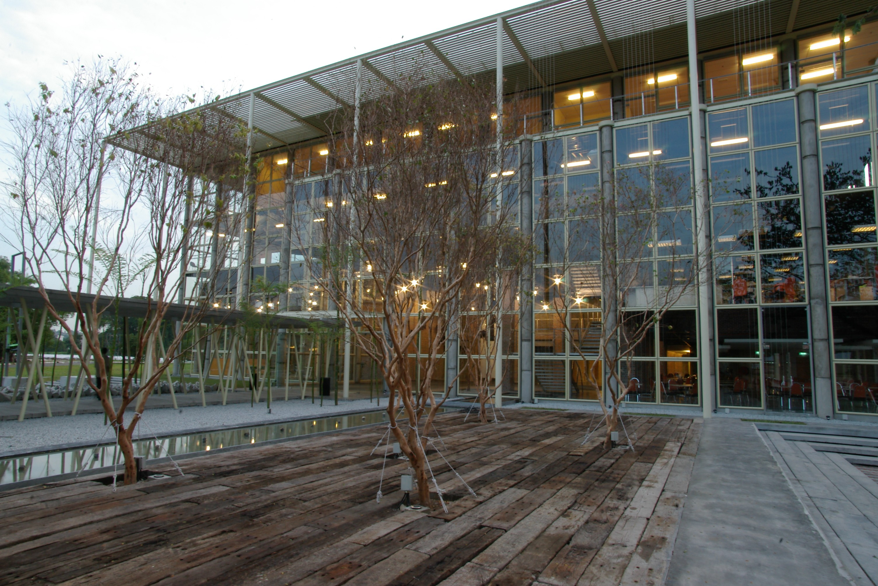 A Front view of Kuala Lumpur Performing Arts Center